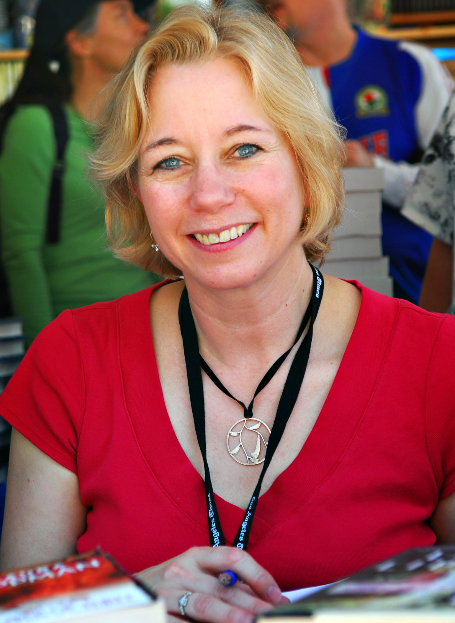 Laura Lippman at the Los Angeles Times Festival of Books.